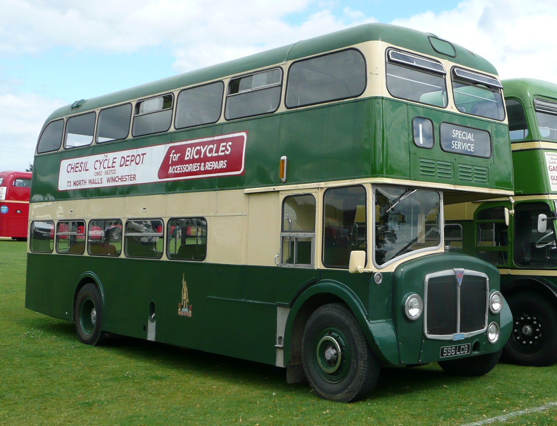 A preserved AEC Renown vehicle previously operated by King Alfred Motor Services in Winchester, at the 2008 Alton Bus Rally.